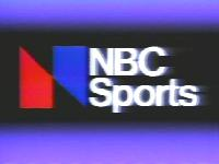 Logo graphic for NBC Sports, used in 1975.